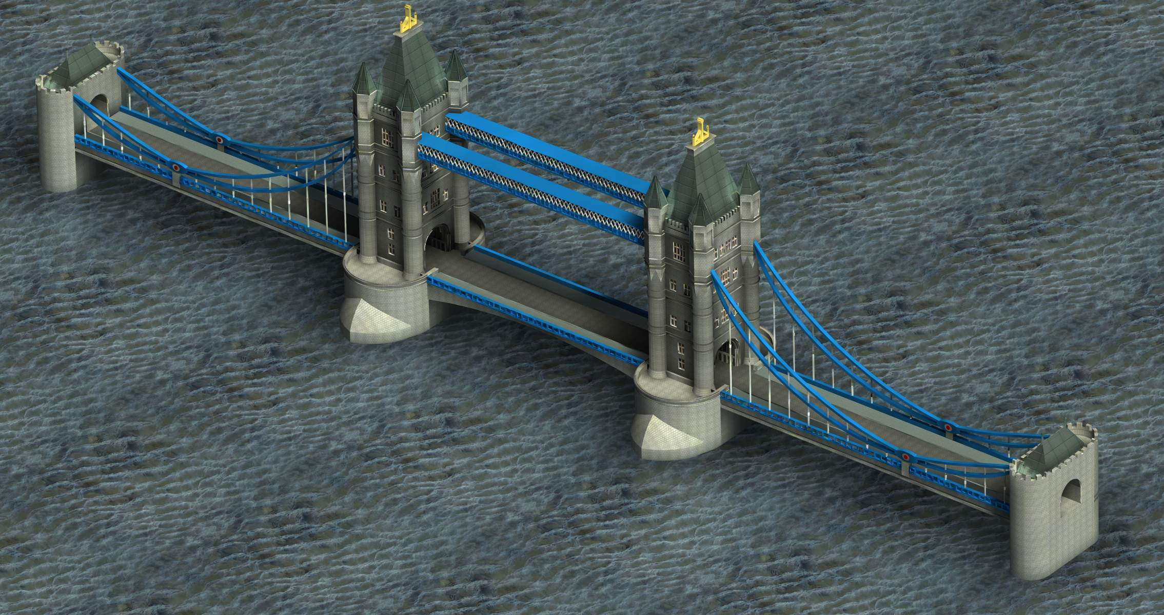 Computer model of the Tower Bridge